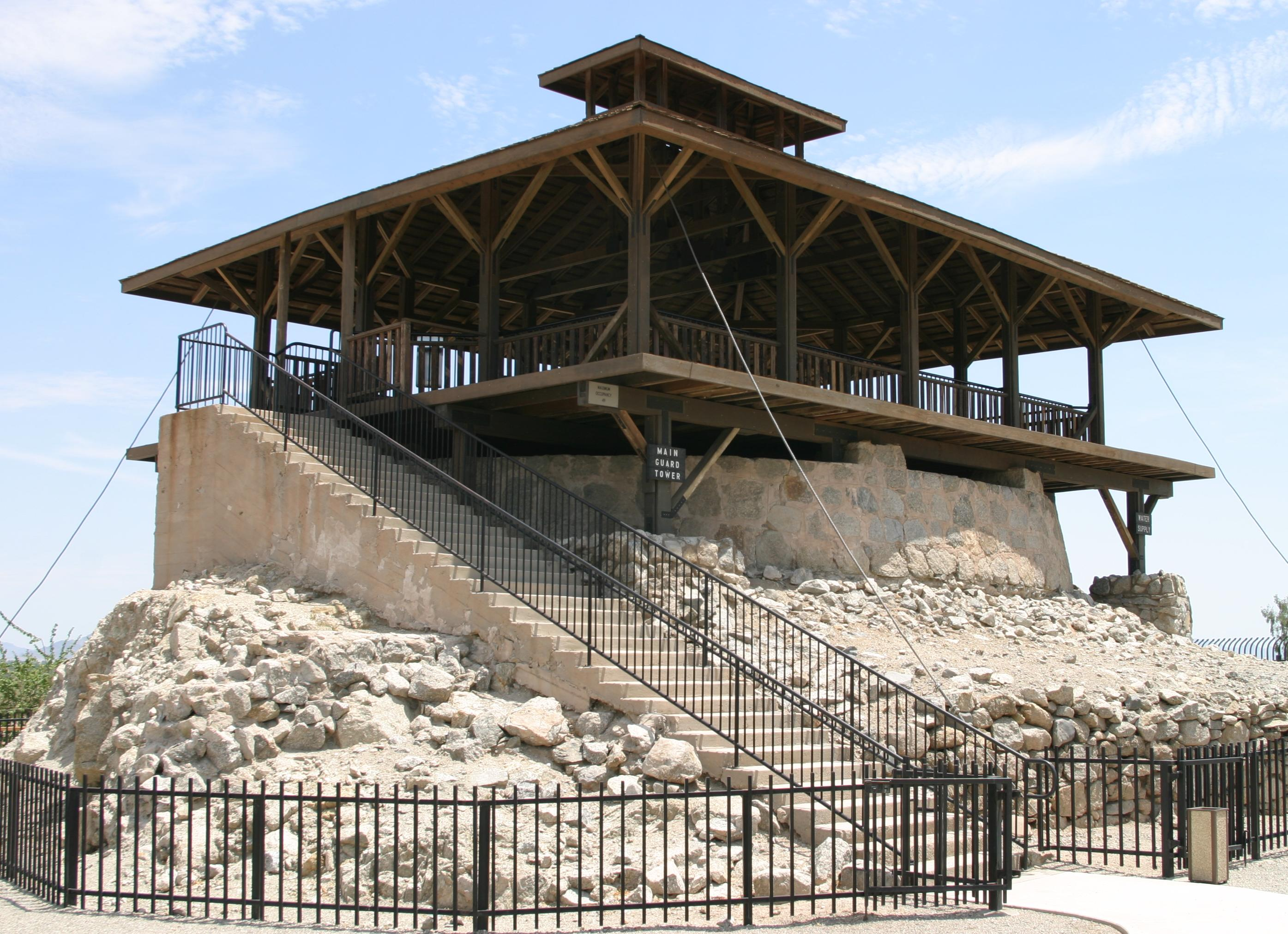 Yuma Territorial Prison main guard tower — in the Yuma Crossing National Heritage Area, Arizona, USA.